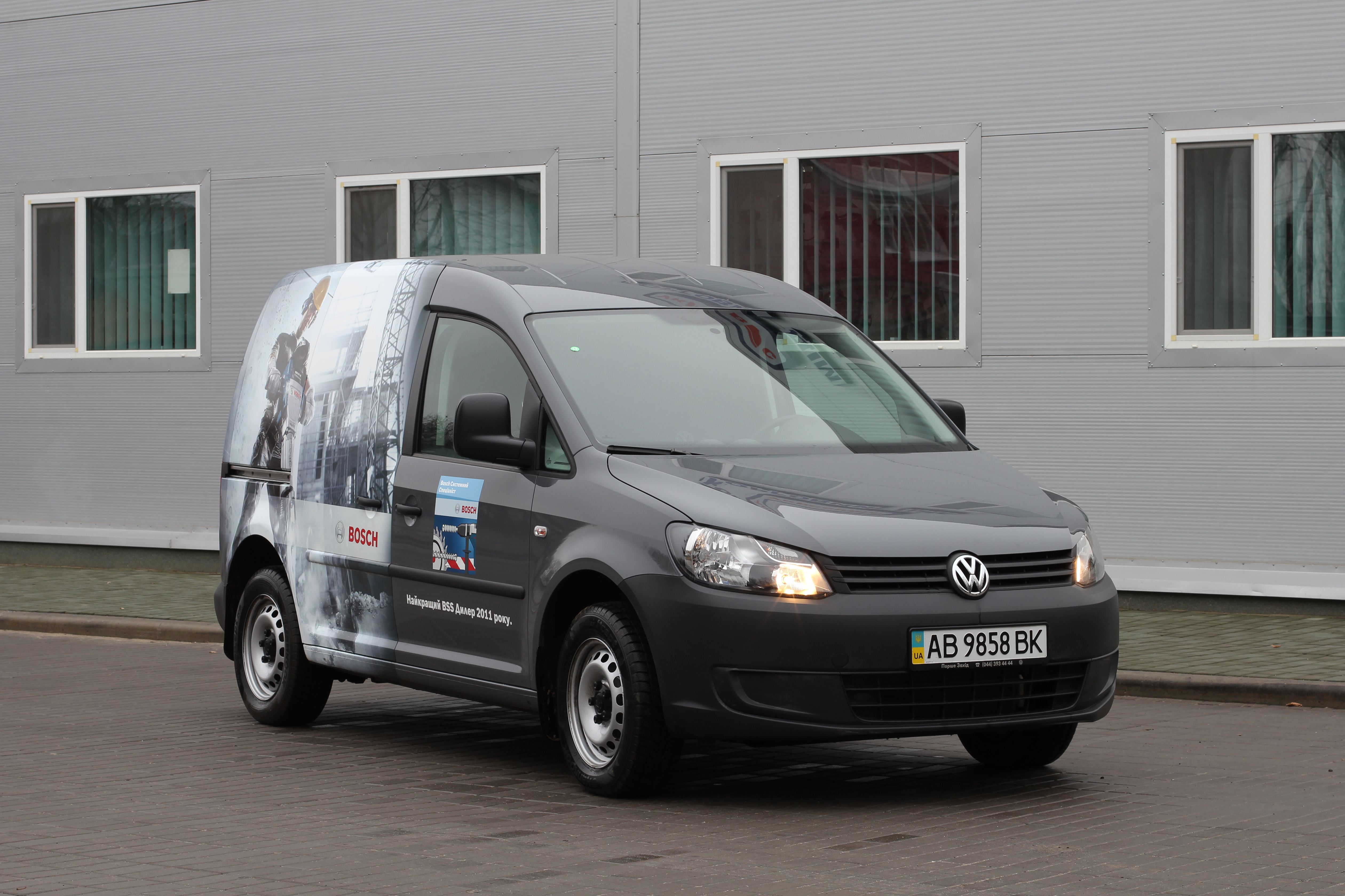 Volkswagen Caddy III (2K) TSI. Ukraine, Vinnitsa.